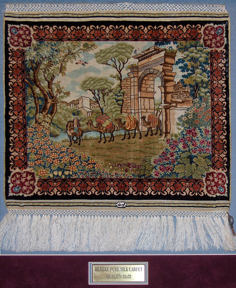 Extremely rare Hereke pure silk on silk Turkish carpet; 0.6 m2, 32 x 32 knots/cm2; 13 years of work, value (est.) : 142,500 €; Hadosan, Urgüp, Cappadocia, Turkey